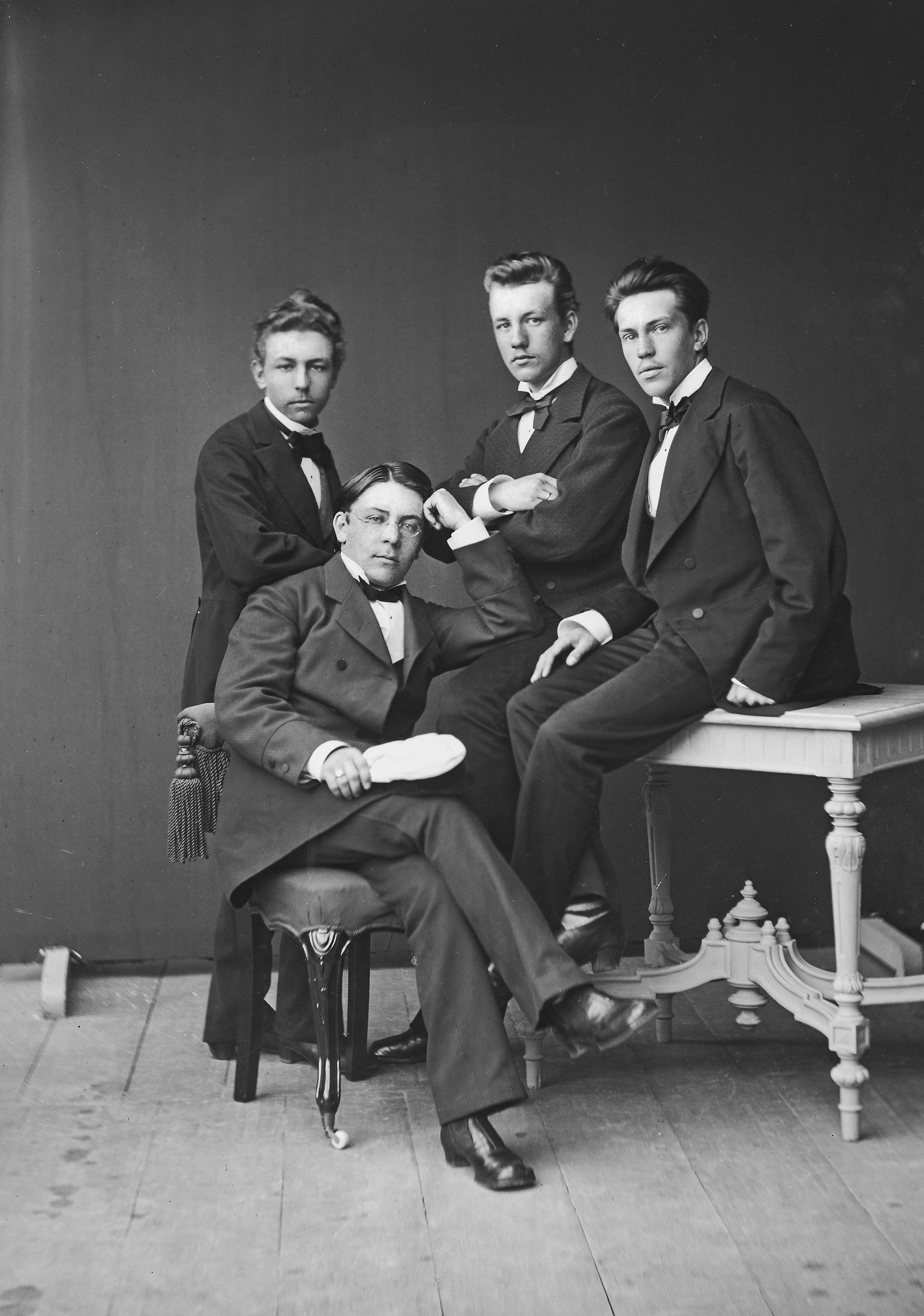 Photograph of the university student Robert Emil Westerlund (1859–1922) with friends.